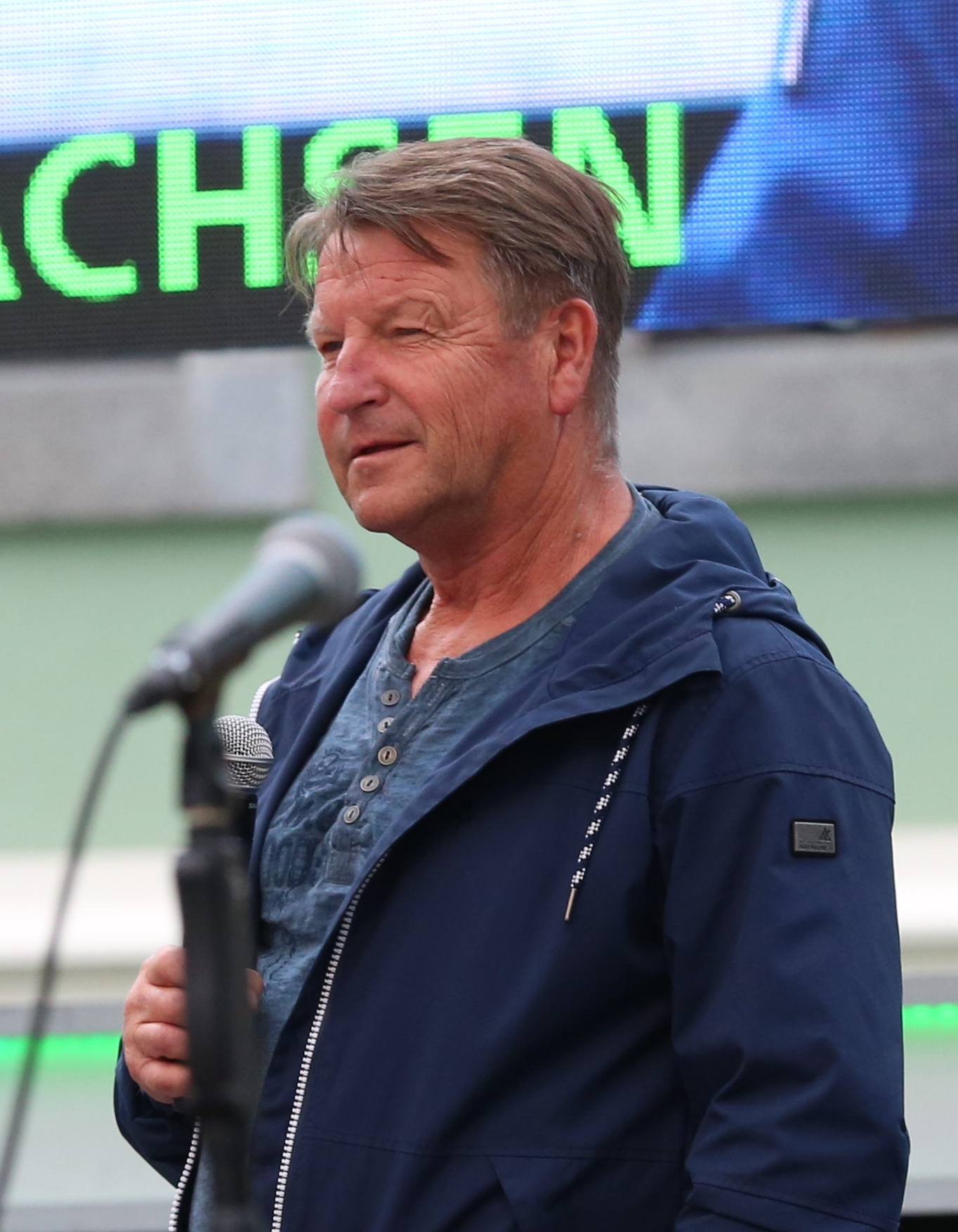 Dixie Dörner at the Tag der Sachsen 2017 in Löbau; MDR Sachsen stage at the Altmarkt